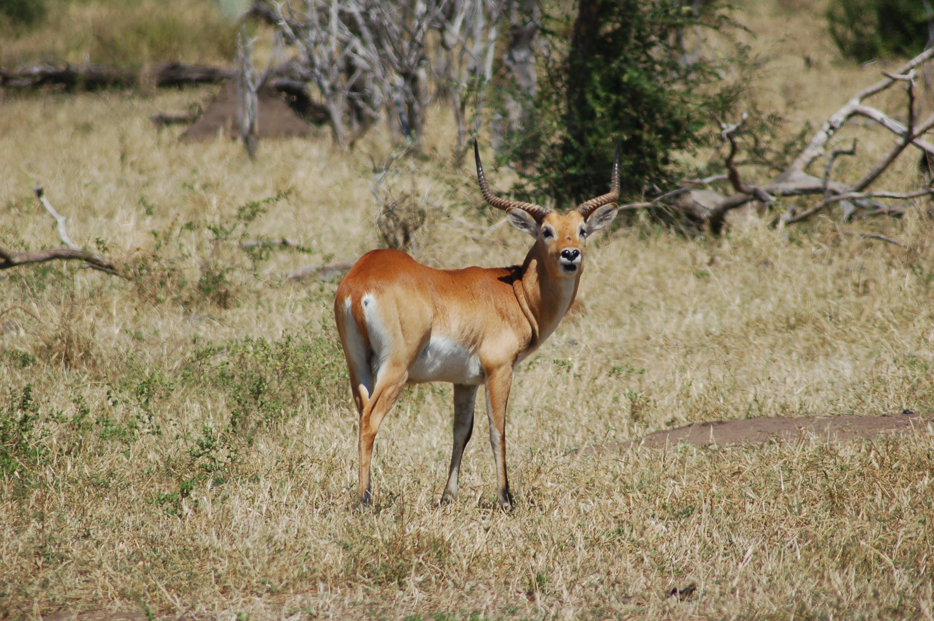 A Lechwe (also known as Southern Lechwe) near the Chobe River, Botswana.